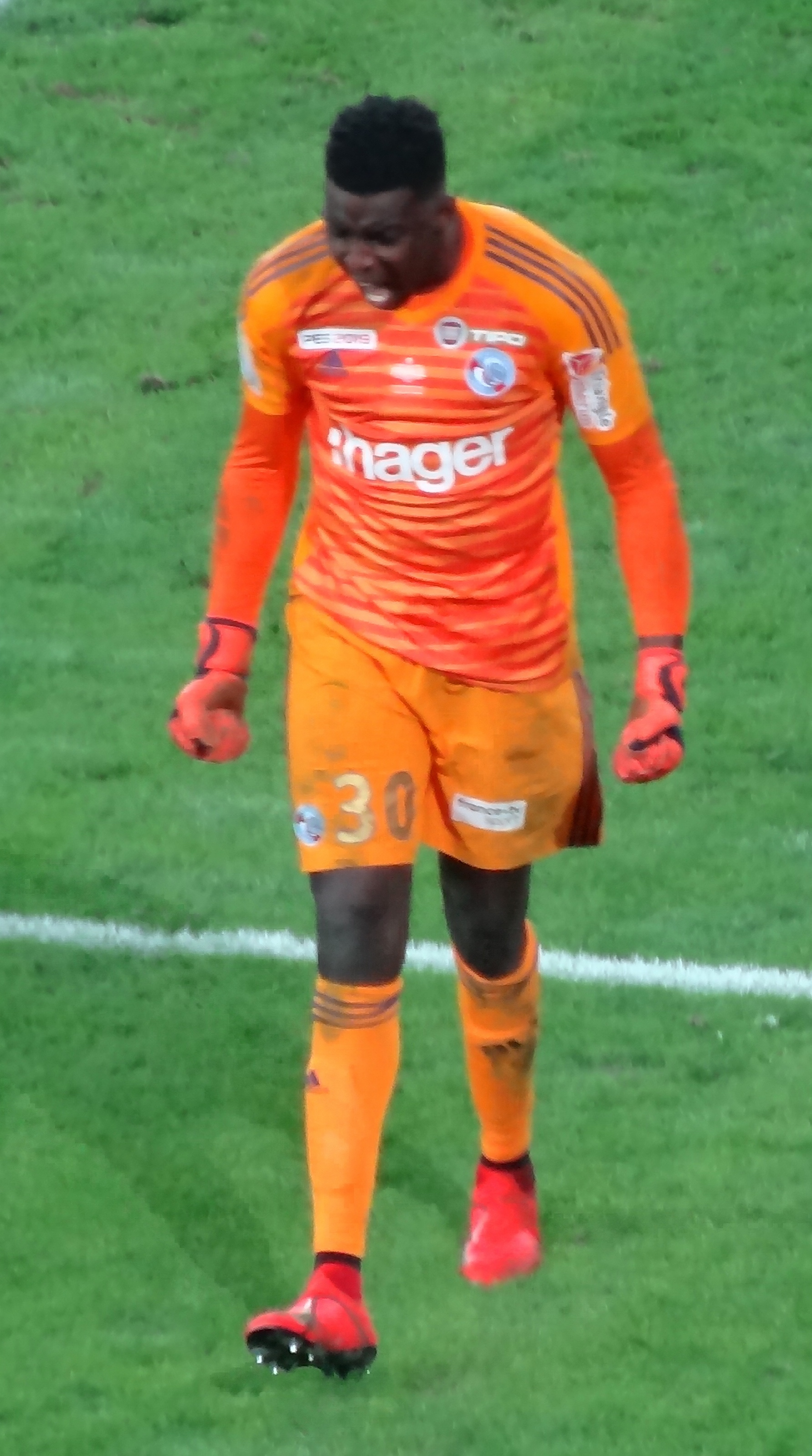 Bingourou Kamara (french League Cup 2019)